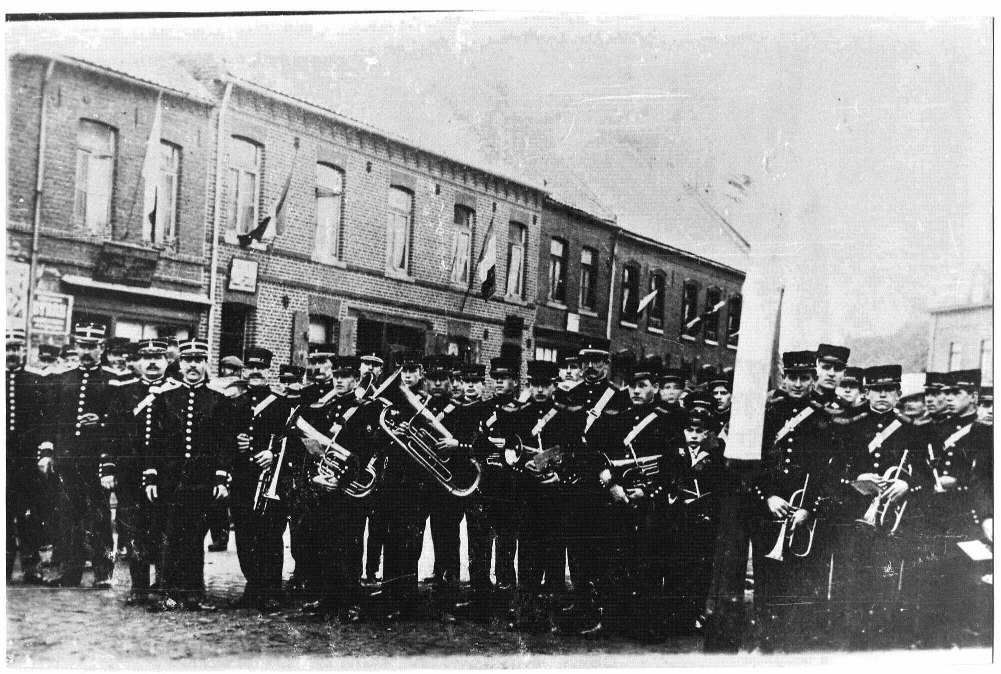 Cinquantenaire de l'Harmonie "La jeune France" en 1913